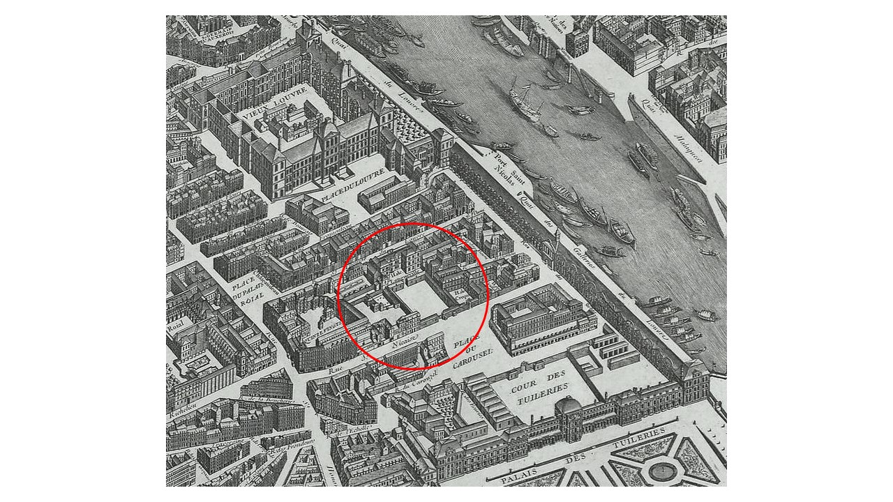 The hotel de Longueville near the Louvre on the "Plan de Turgot"